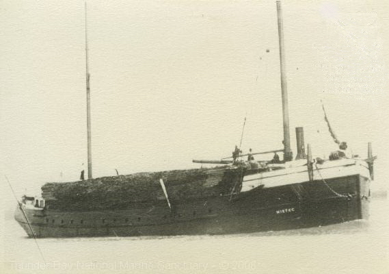 The schooner Miztec after she was converted to a lumber barge to serve as a consort to Great Lakes lumber hookers.